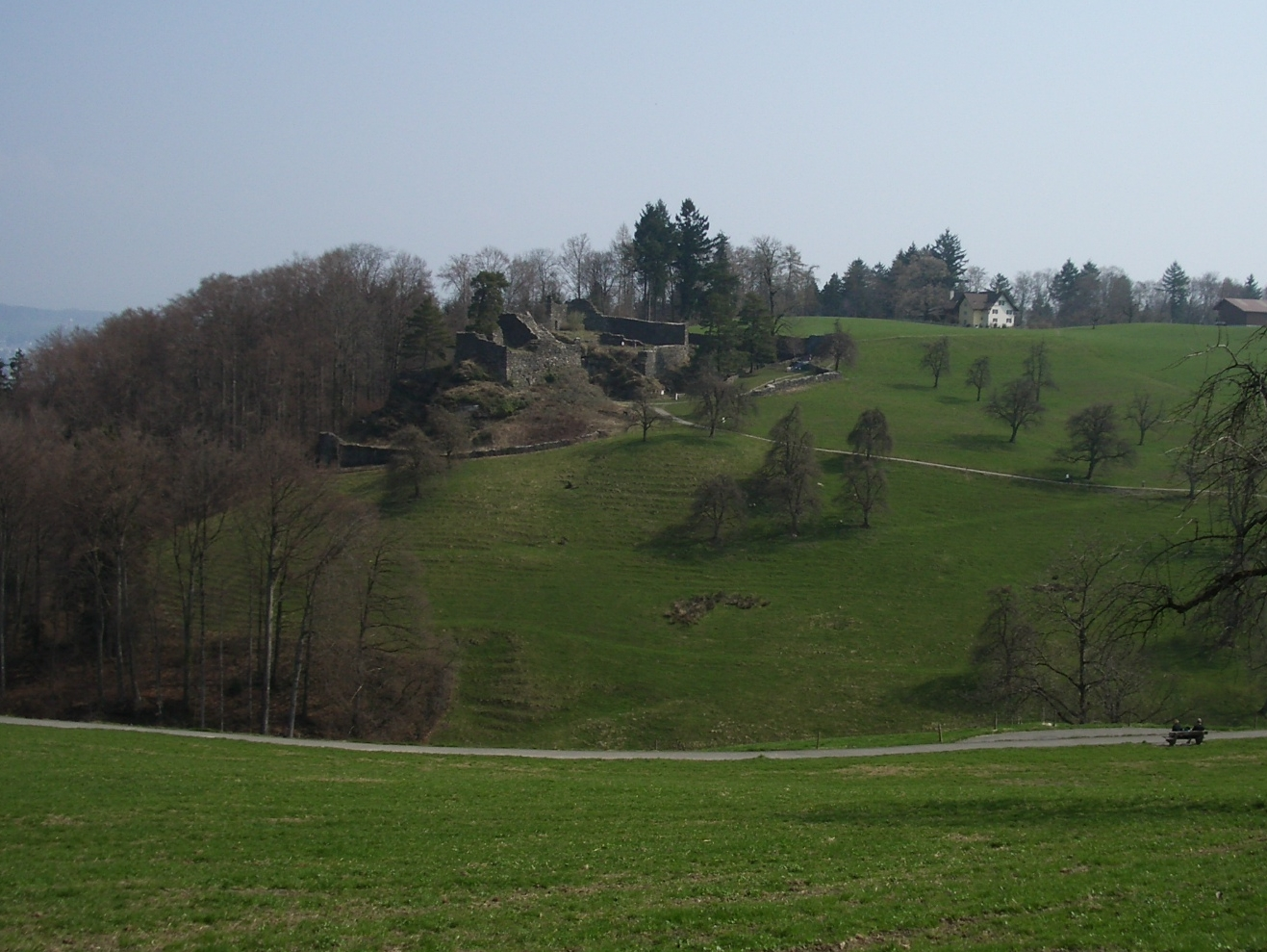 Wädenswil ZH. Switzerland